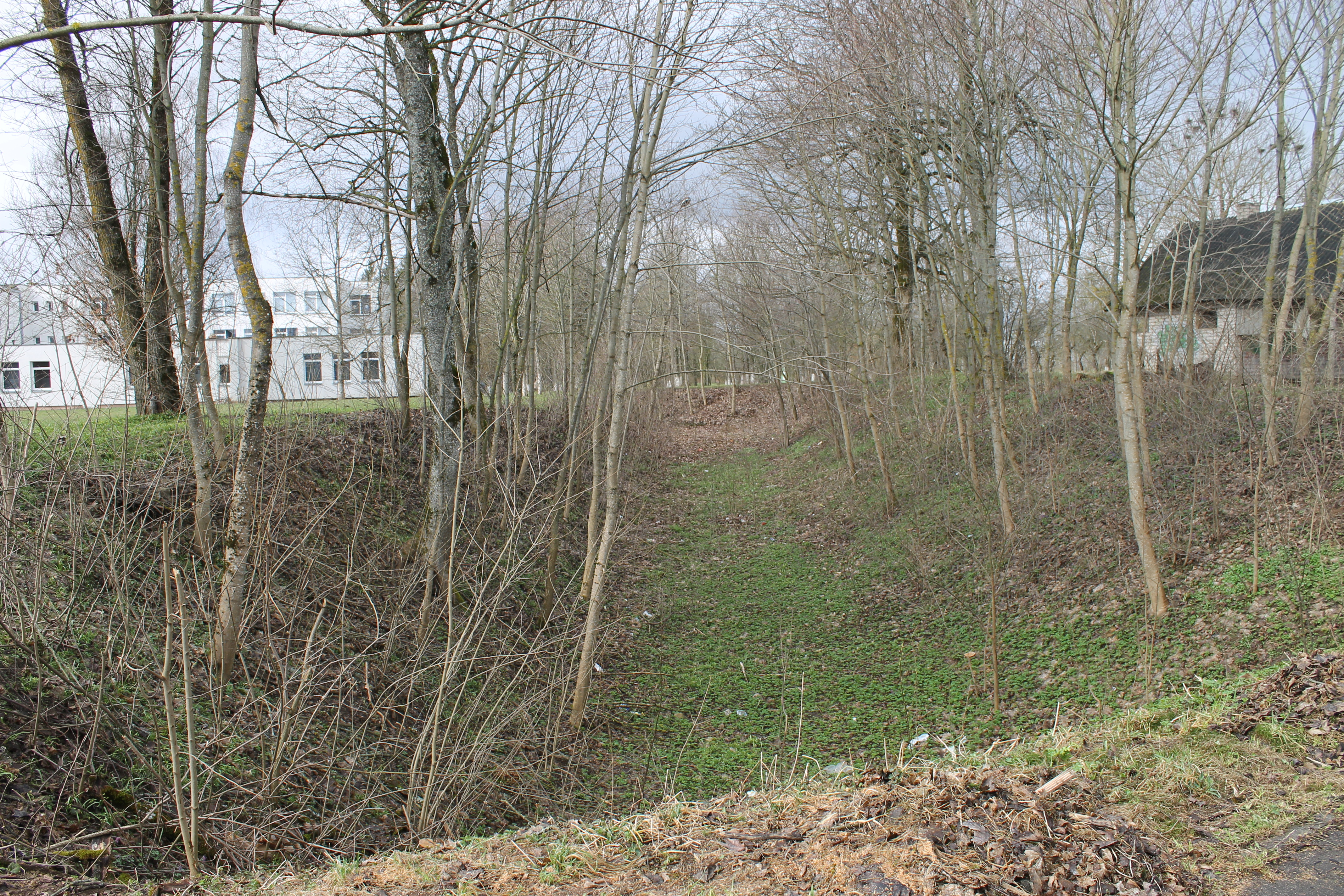 Mosėdis Hillfort, Skuodas district, LithuaniaLietuvių: Mosėdžio piliakalnis, Skuodo rajonas, Lietuva